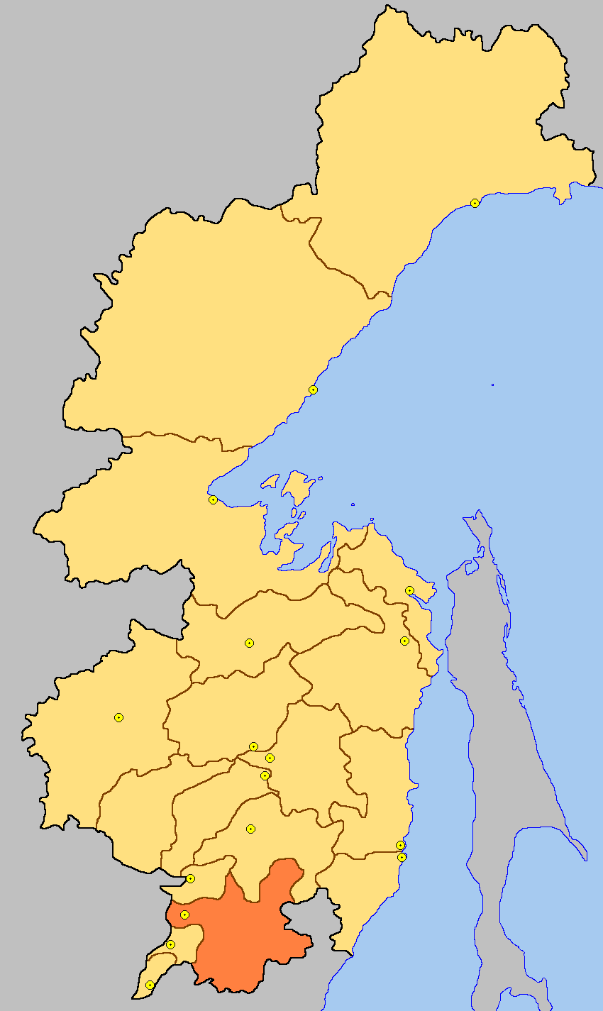 Imeni Lazo district on the map of Khabarovsk kray